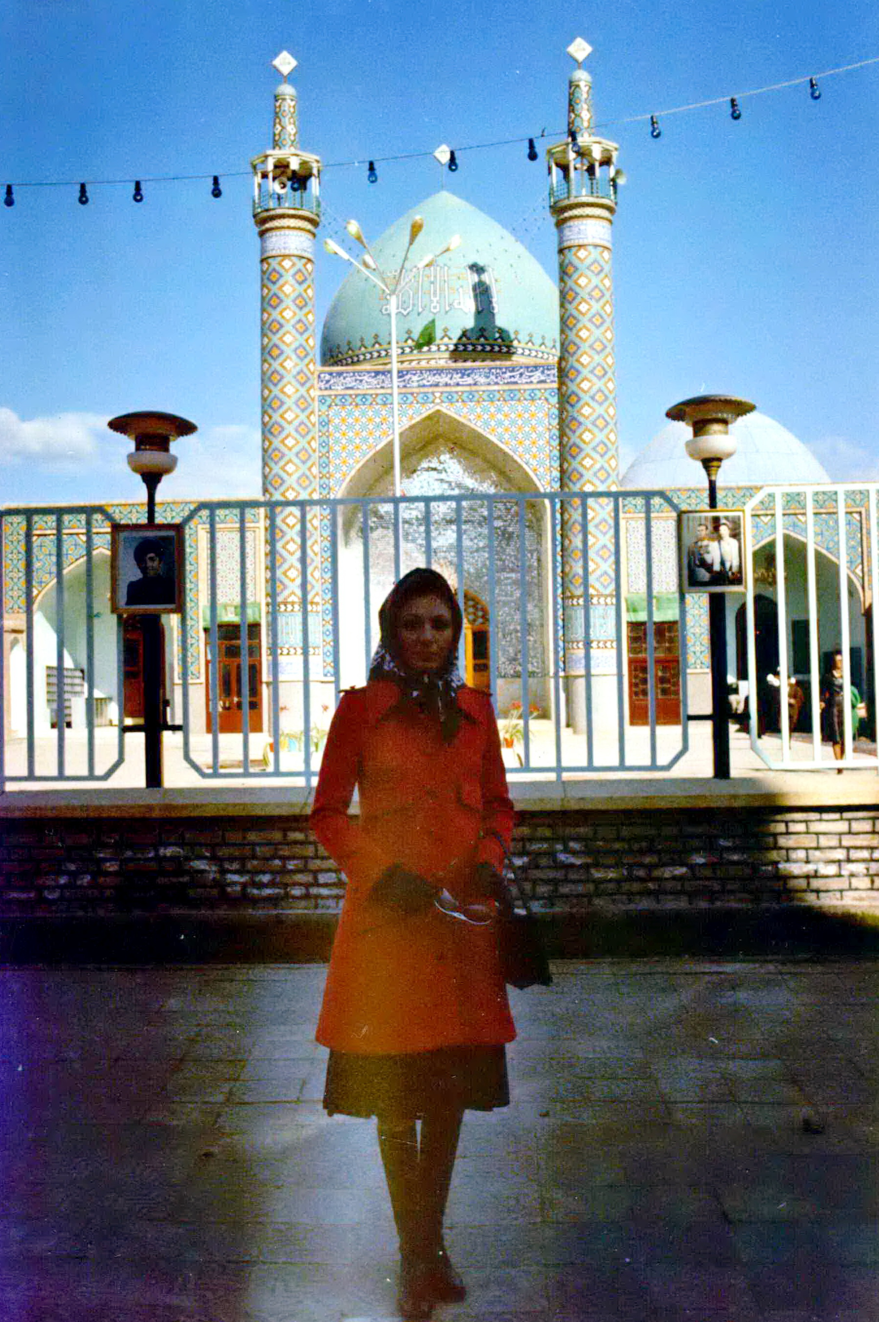 Farah Pahlavi in Al-Hamza Mosque of Kashmar, 1974/12/1